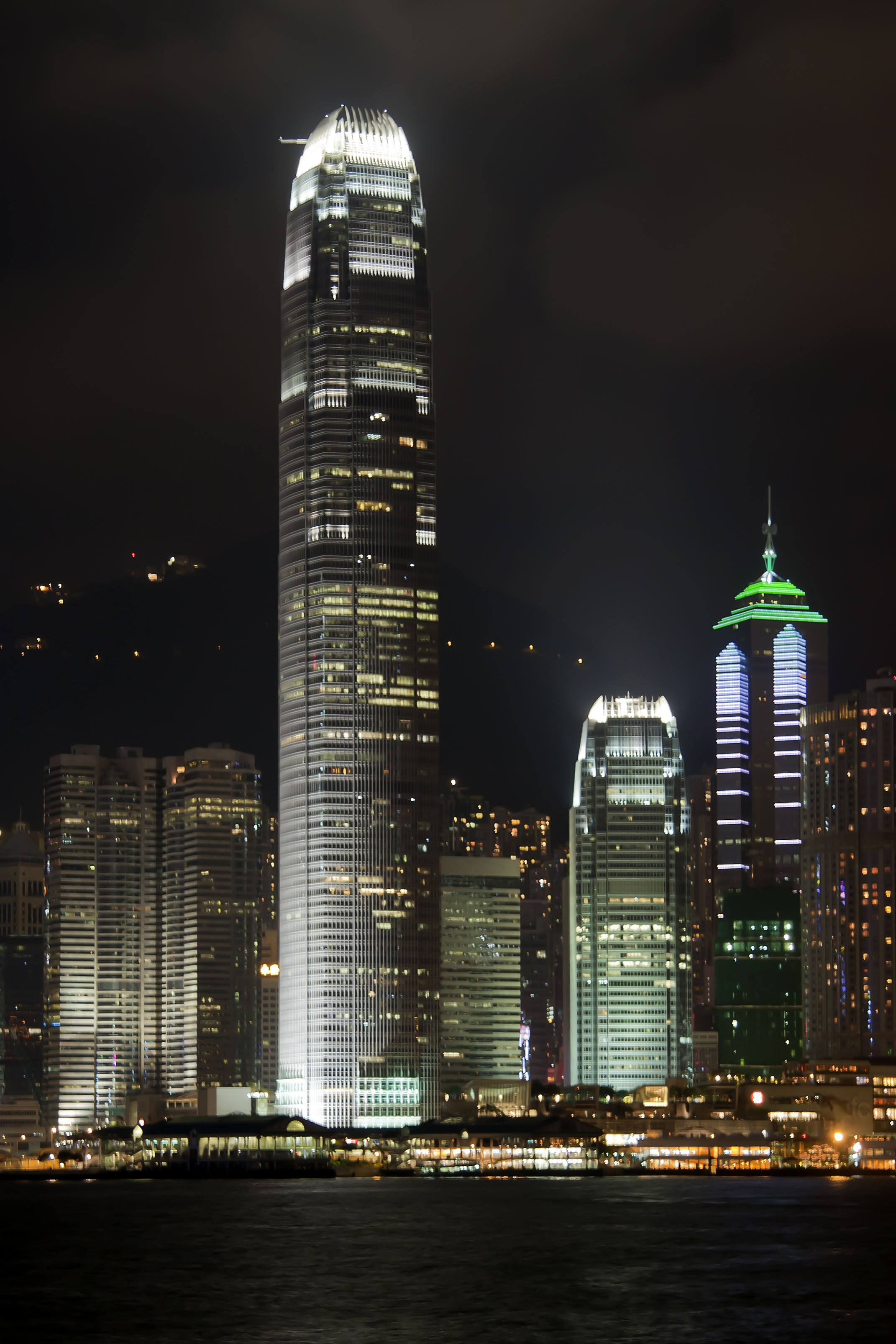 International Finance Center in Hong Kong